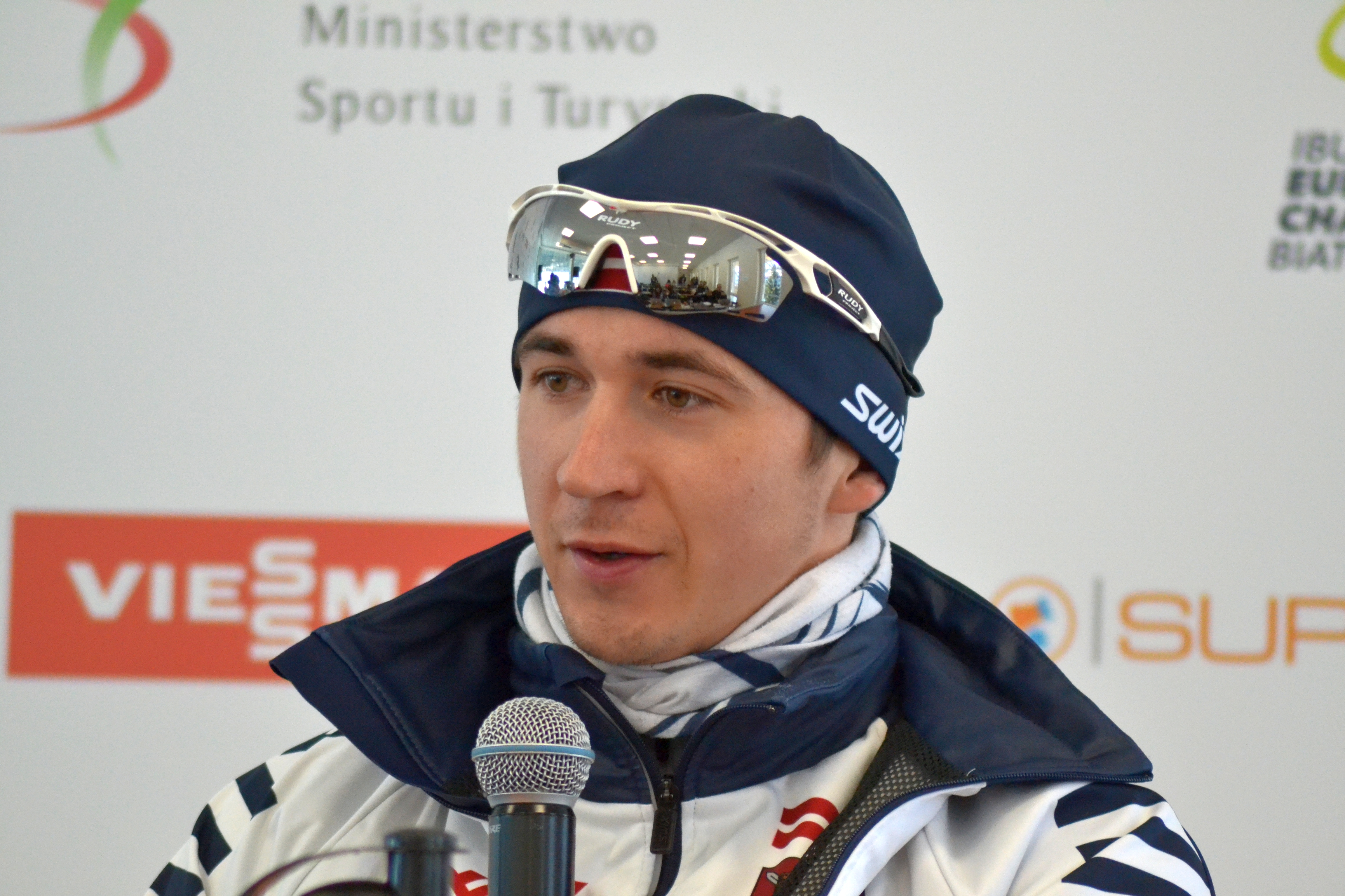 Open European Championships Biathlon 2017, Men's Pursuit race.